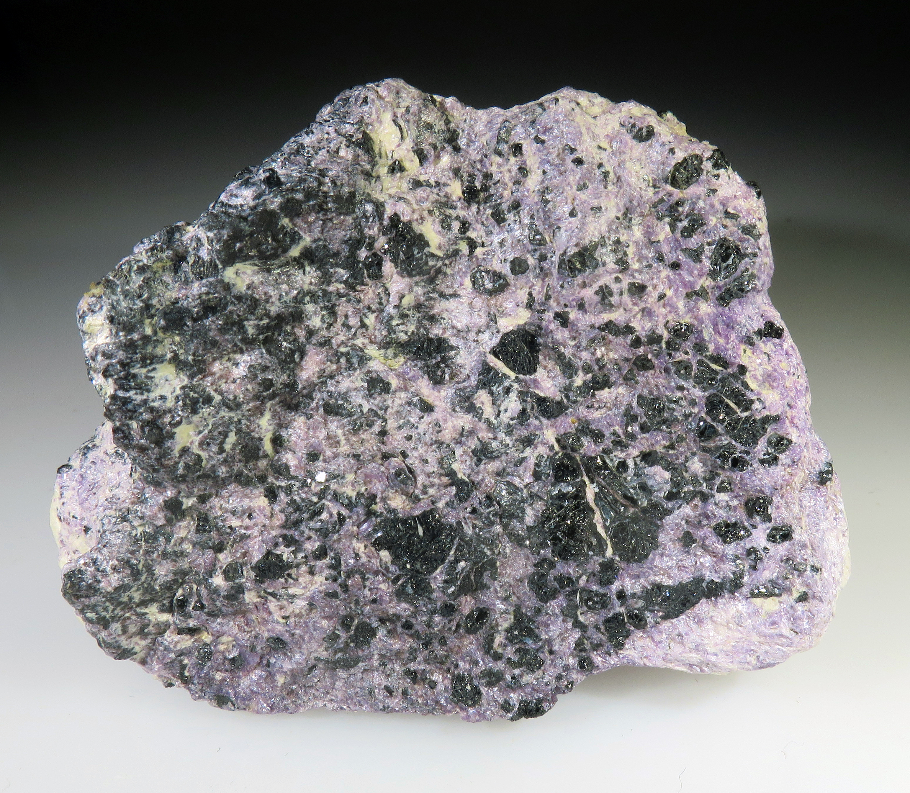 Chromite, Clinochlore (Var: Chromian Clinochlore) Dimensions: 51 mm x 40 mm x 31 mm Locality: Unnamed Chromite prospects, Bare Hills, Baltimore County, Maryland, USA Original description: Chromite in chromian clinochlore. Collected by Stuart Herring.